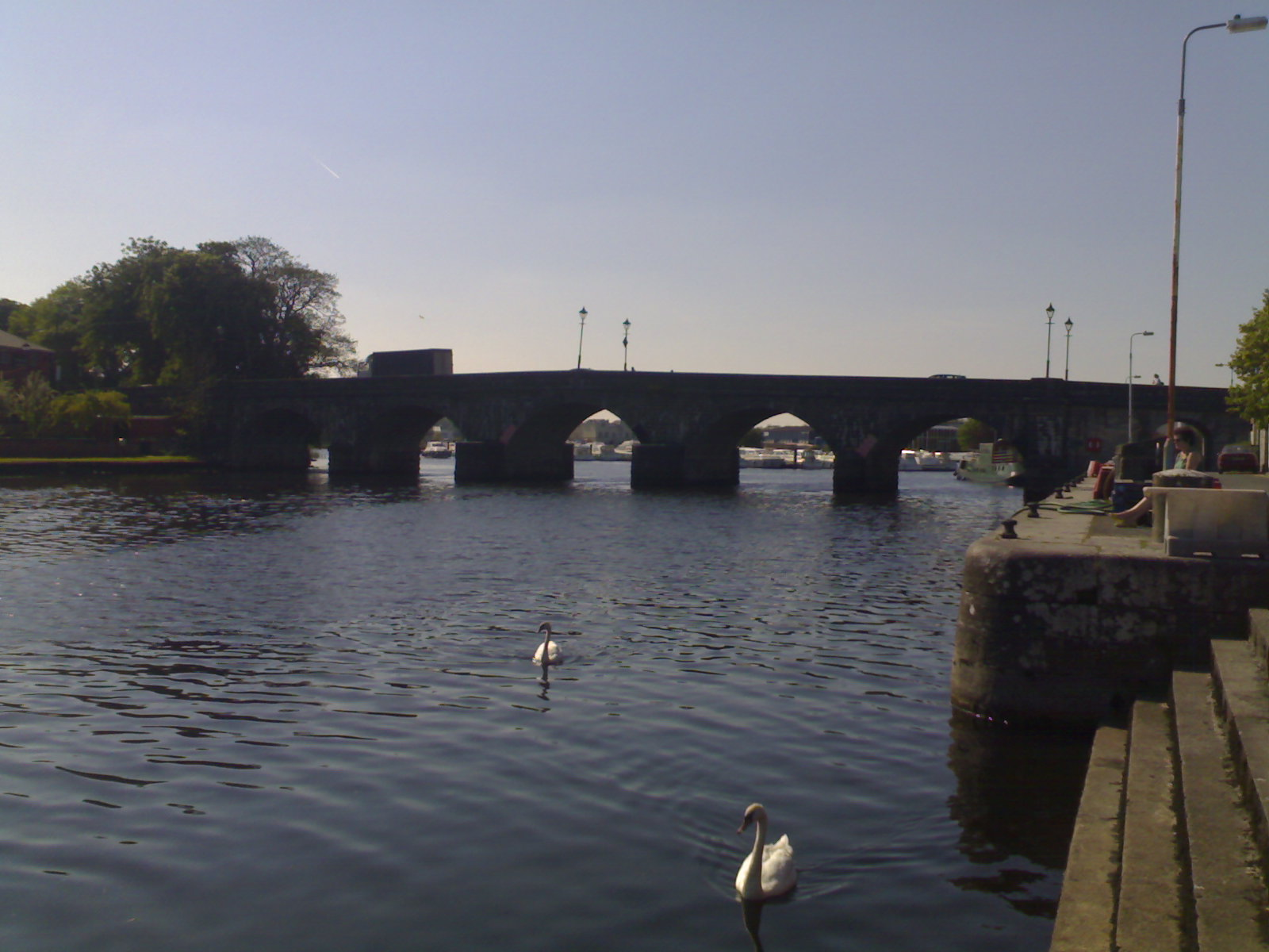 Carrick-on-Shannon_Bridge, Camera Phone, Own work, Peter Gavigan, May 2007